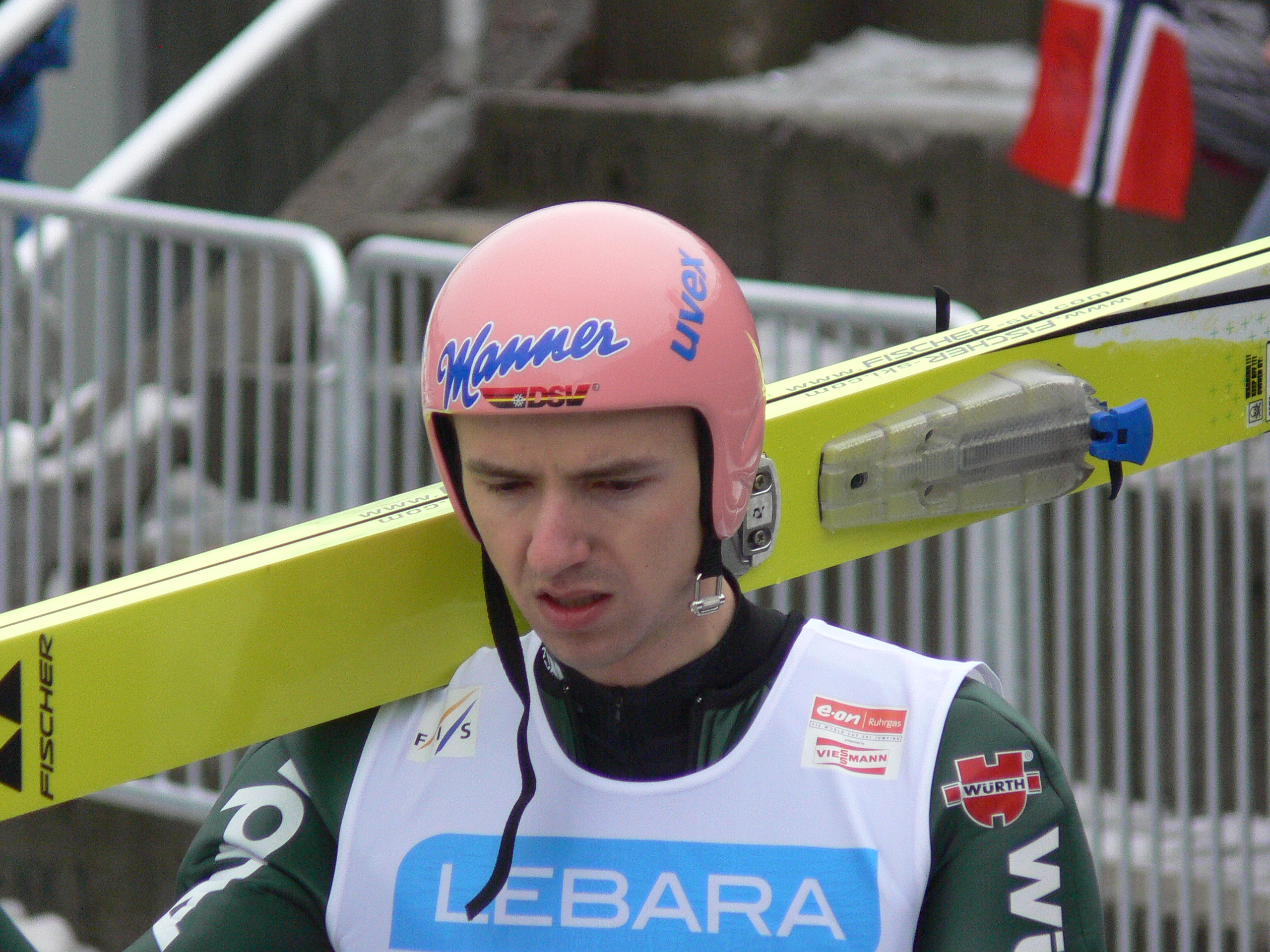 From the 2008 World Cup ski jumping event in Holmenkollen, Oslo.